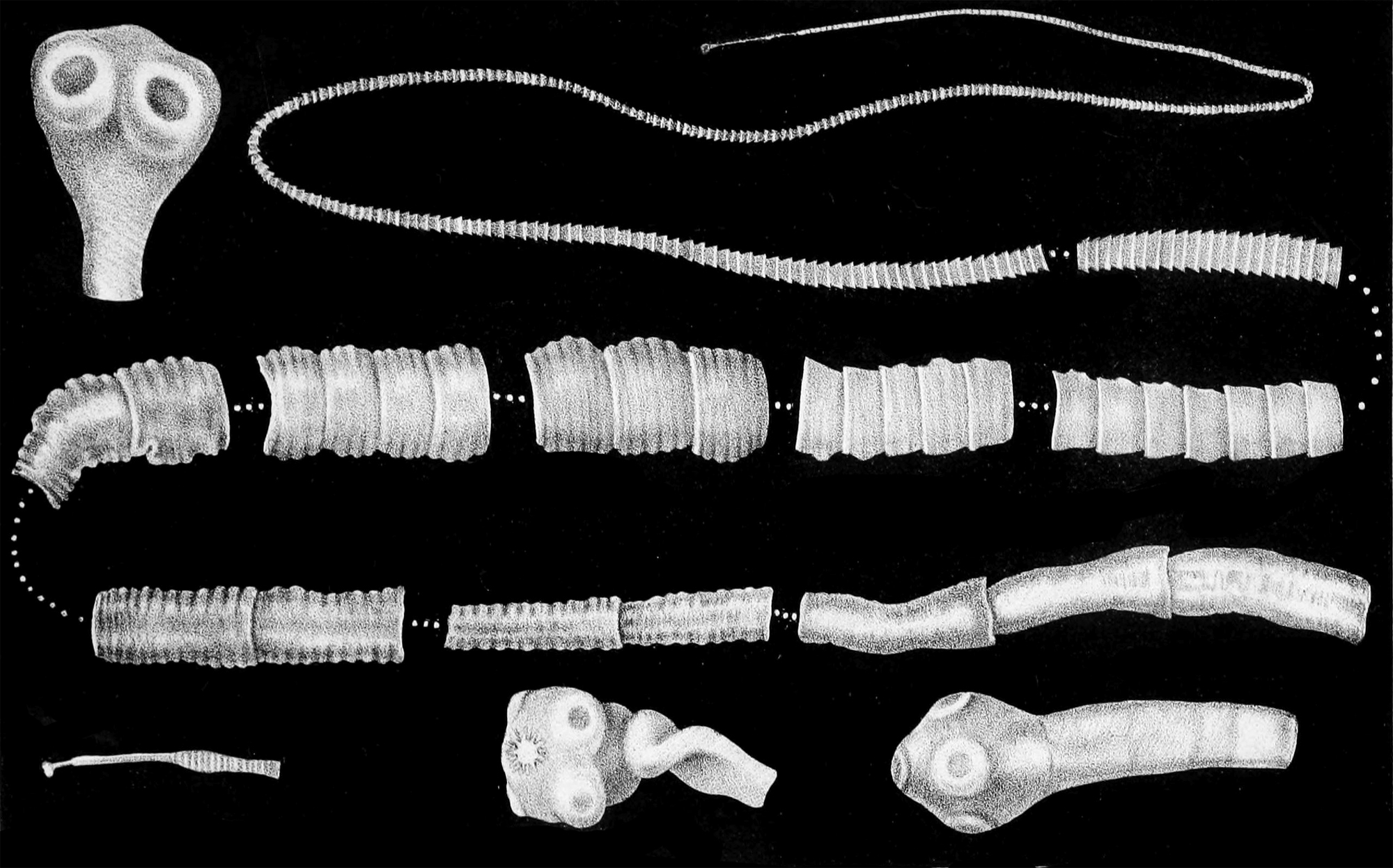 Taenia solium